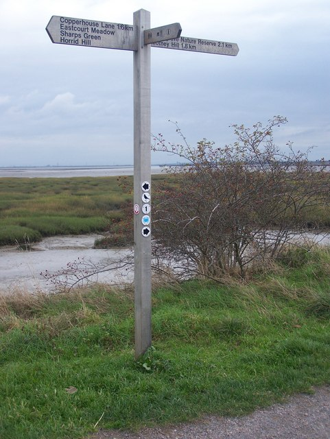 Footpath sign at footpath junction in Riverside Country Park. Coming from carpark near Visitor Centre. Various routes and ways around the park are very well signposted. Also on Saxon Shore Way - long distance footpath. River Medway in background.